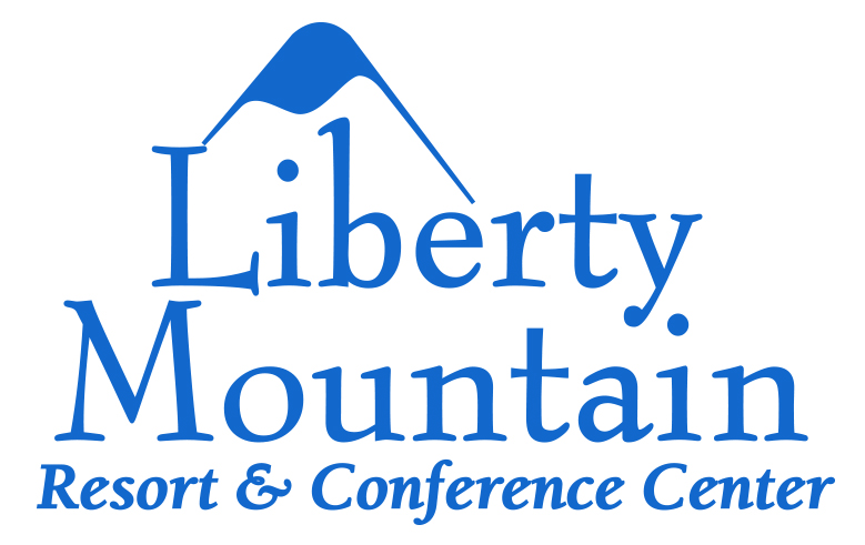 Liberty Mountain Resort Logo